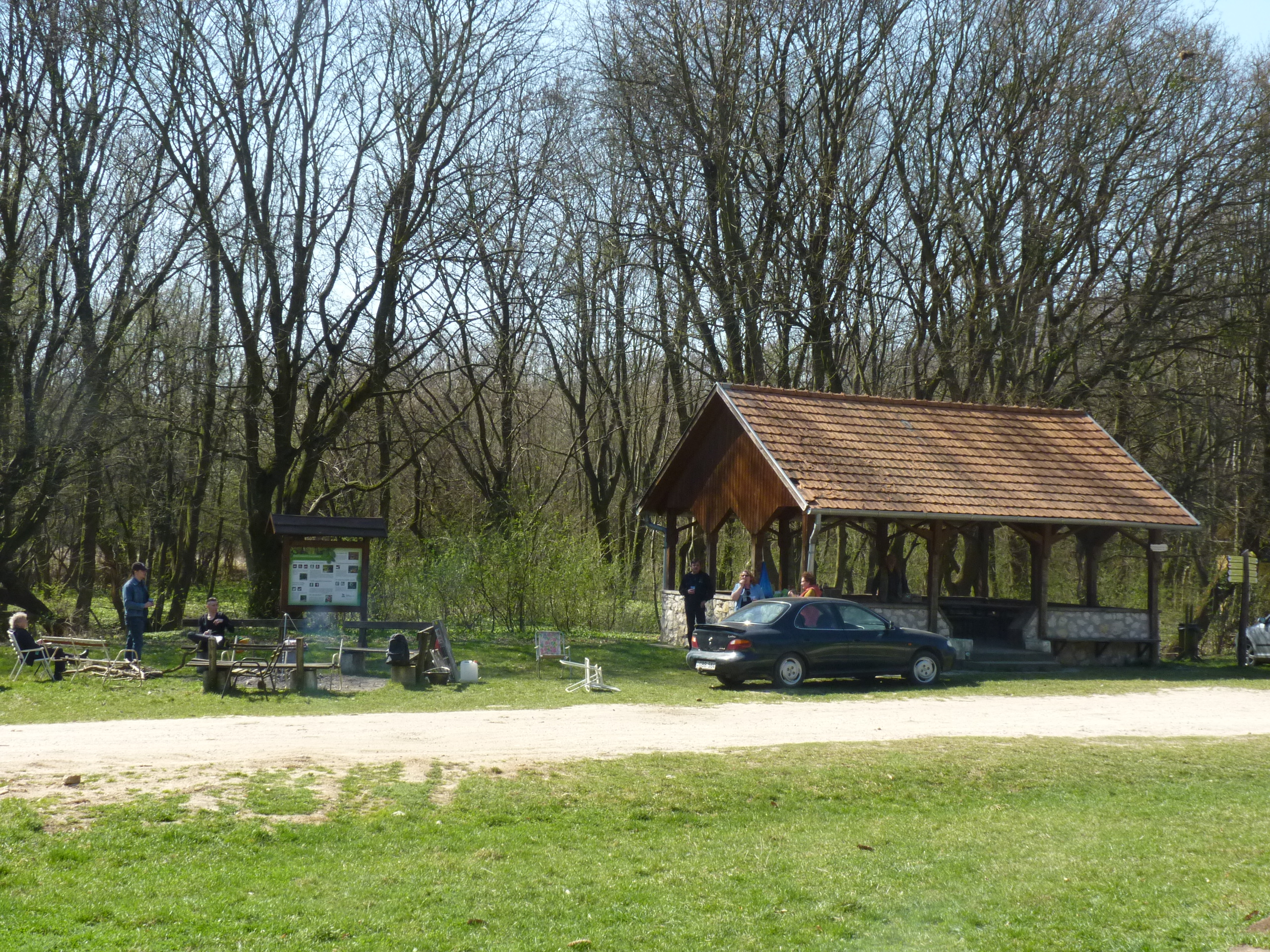 Resting place in Pusztamarót